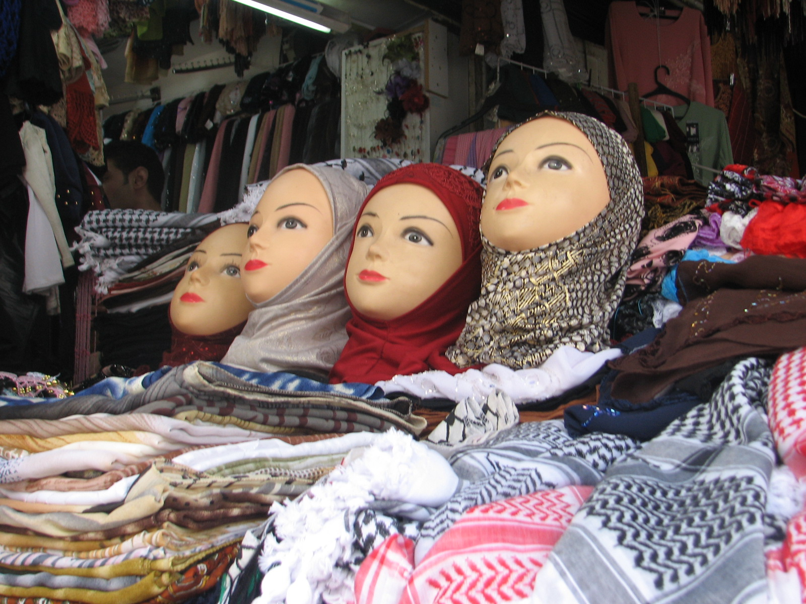 Women's accessories for sale! ++Cafiyas and other scarves, in JLM's old city within Damascus Gate.